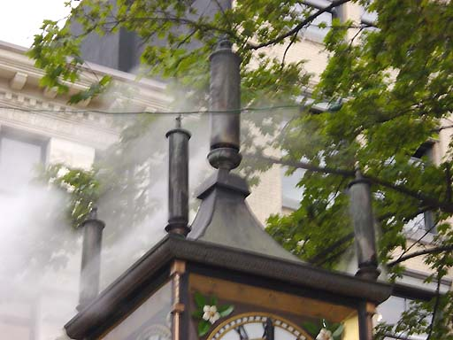 Whistles atop a steam clock. Taken and uploaded by User:Leonard G.